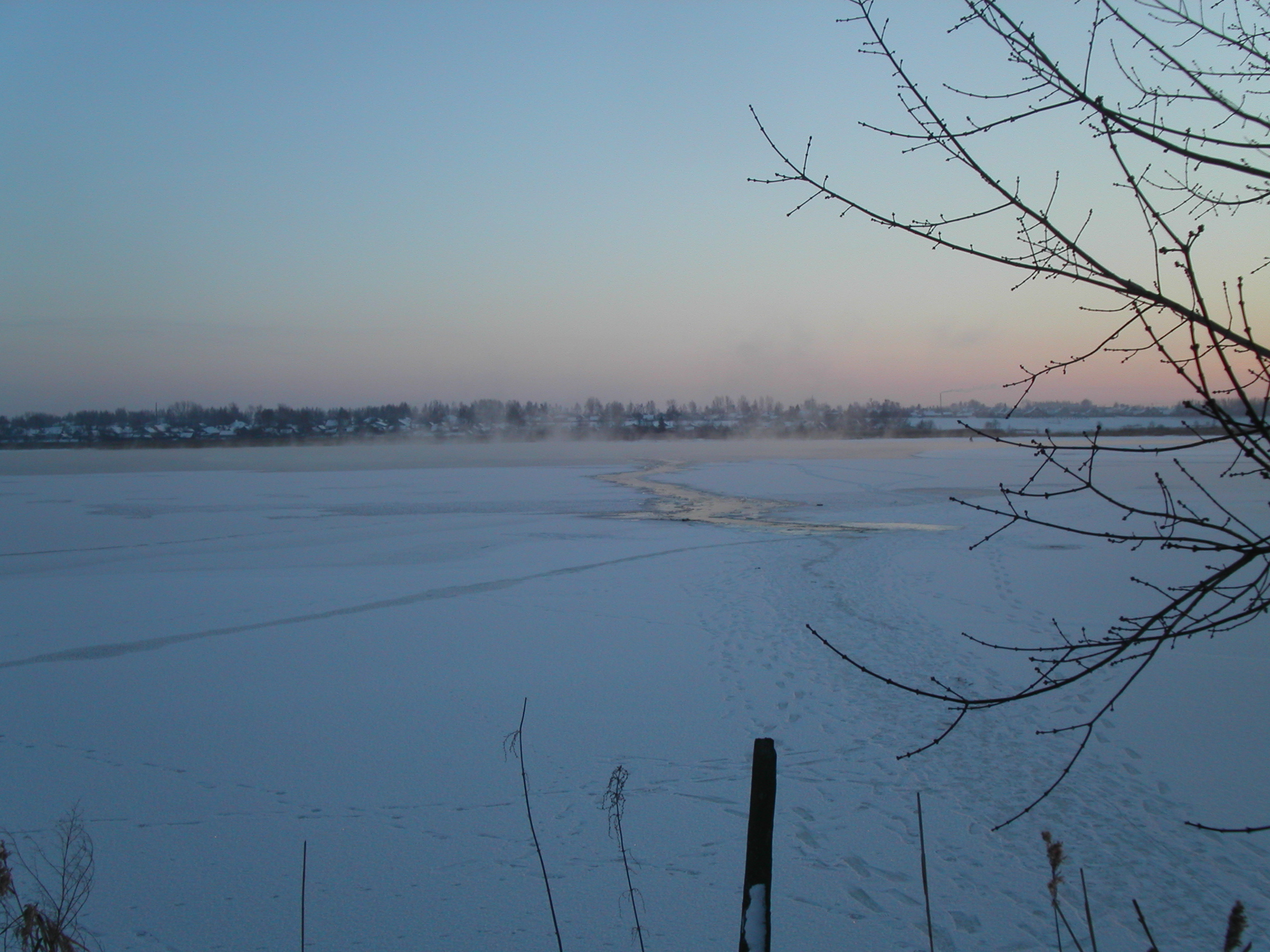 The lake does not freeze in the winter.